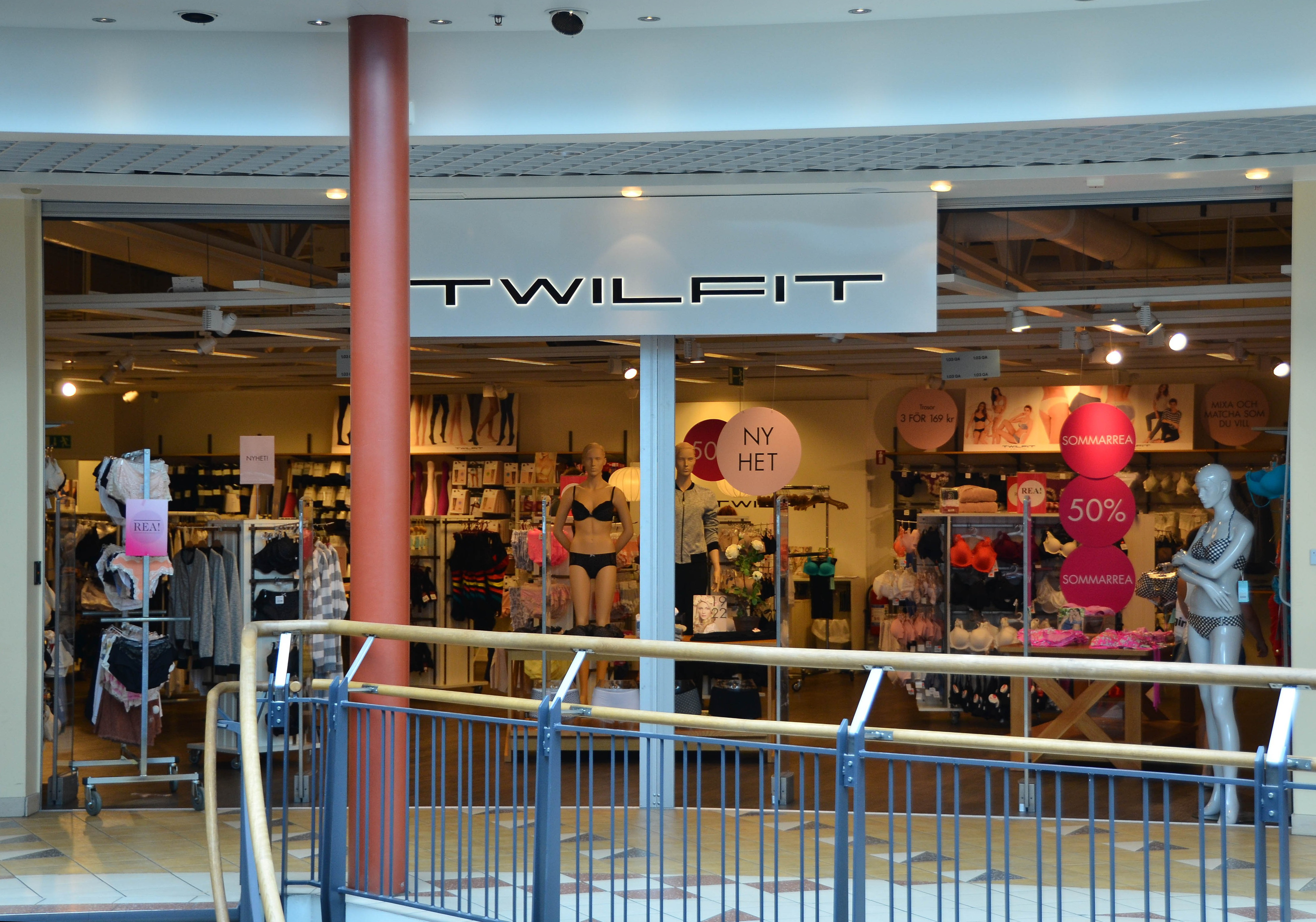 Twilfit in Citykompaniet, a shopping mall in Skellefteå, Sweden.